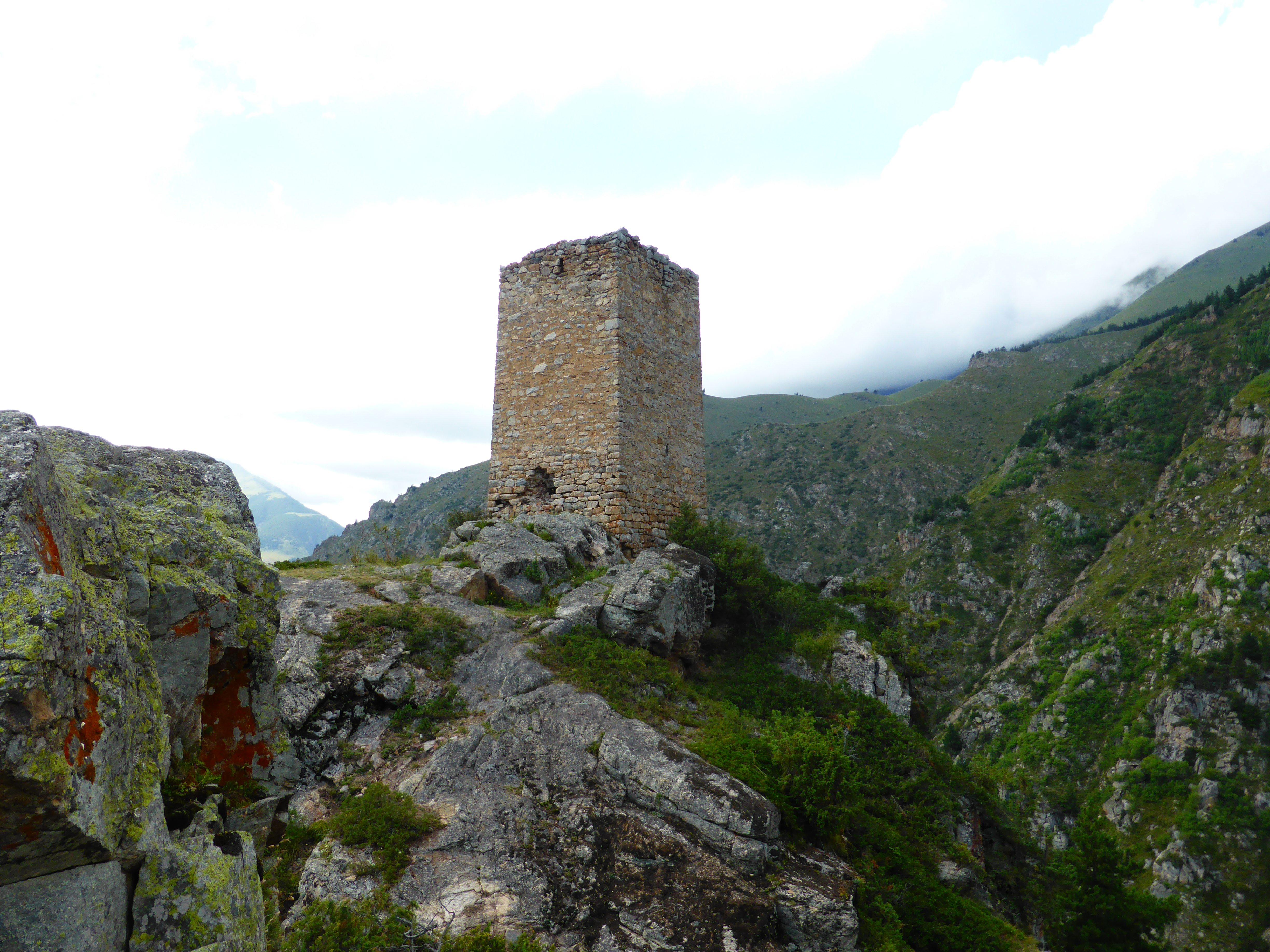 Tower combat Mamiya Kala